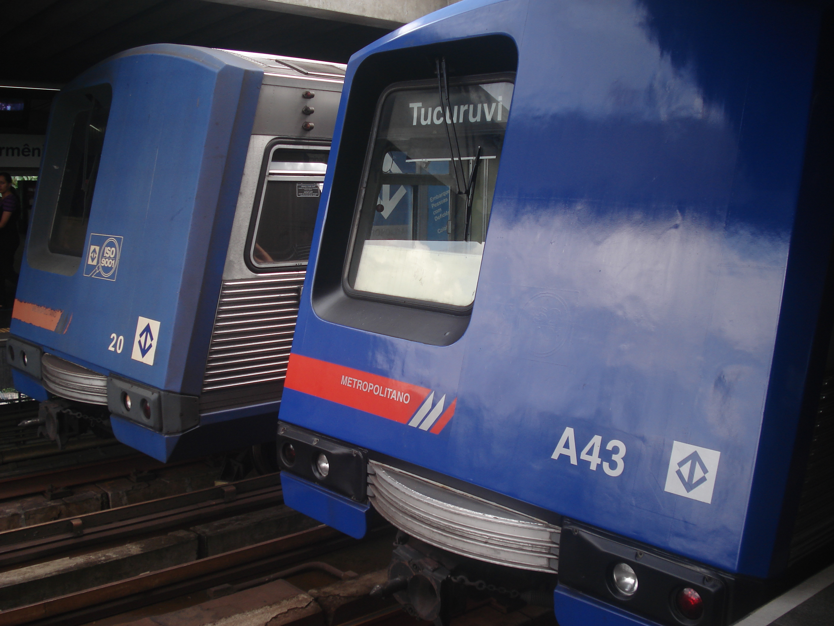 Trains Budd/Mafersa stopped at Armenia Station. Line 1 - Blue of São Paulo Metro.